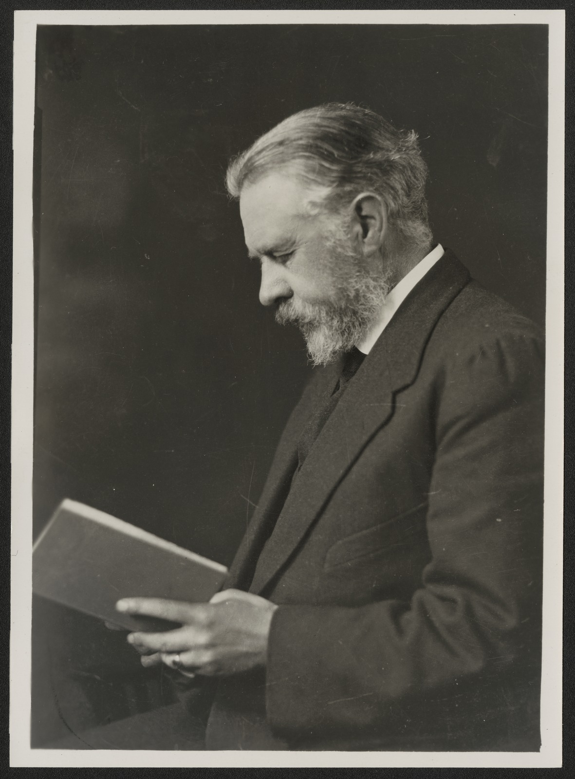 Louis Lavater 1867-1953 was a Swiss-Australian composer photo courtesy state library of Victoria